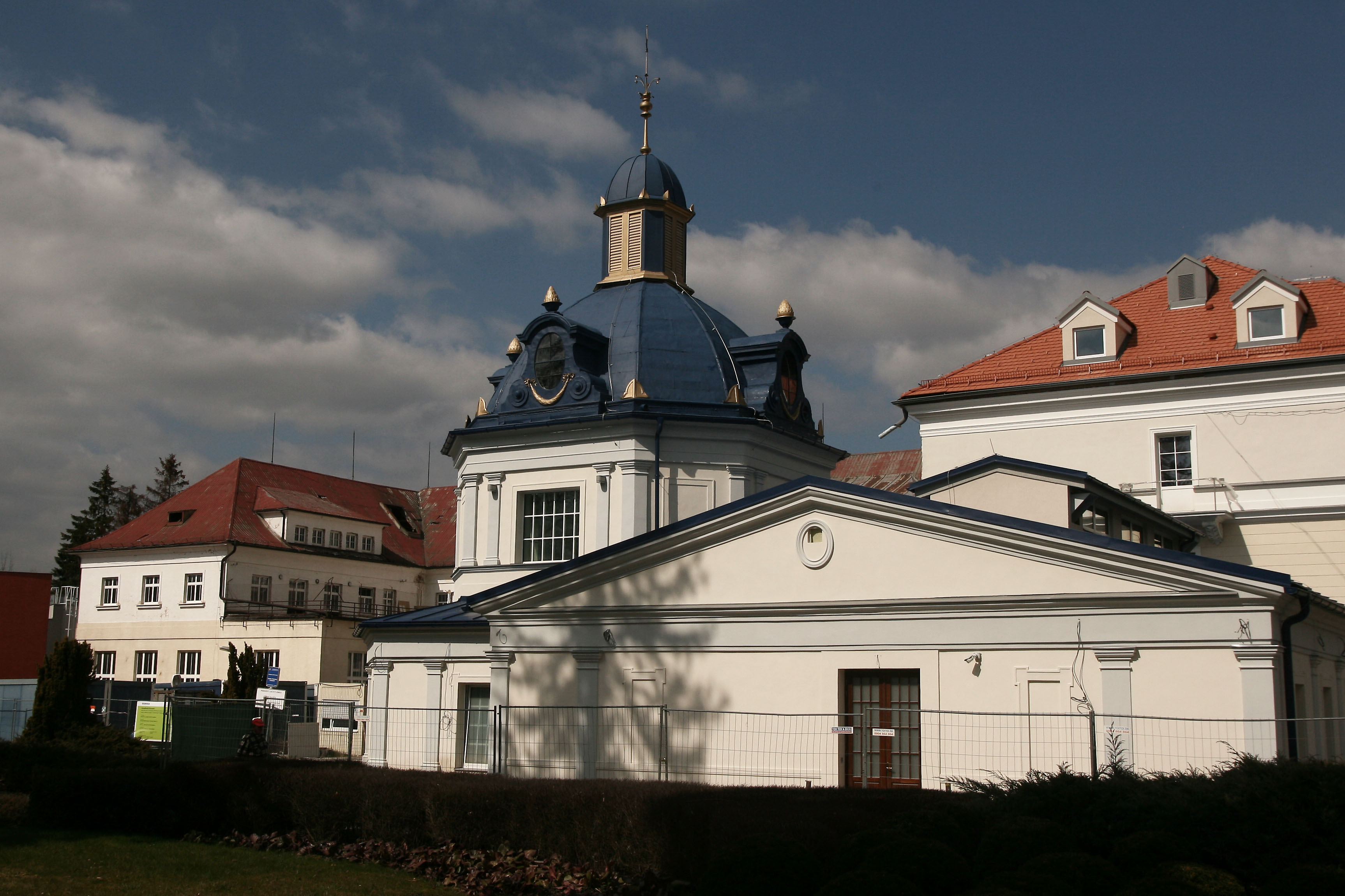 The Blue spa (Modrý kúpeľ), spa building from 1885 in Turčianske Teplice, Slovakia.